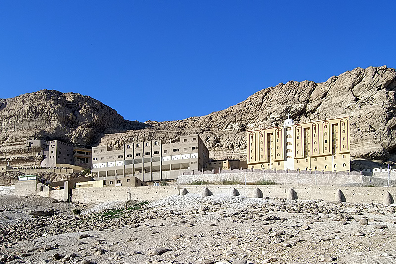 View the Hanging Monastery in the governorate of Asyut, Egypt